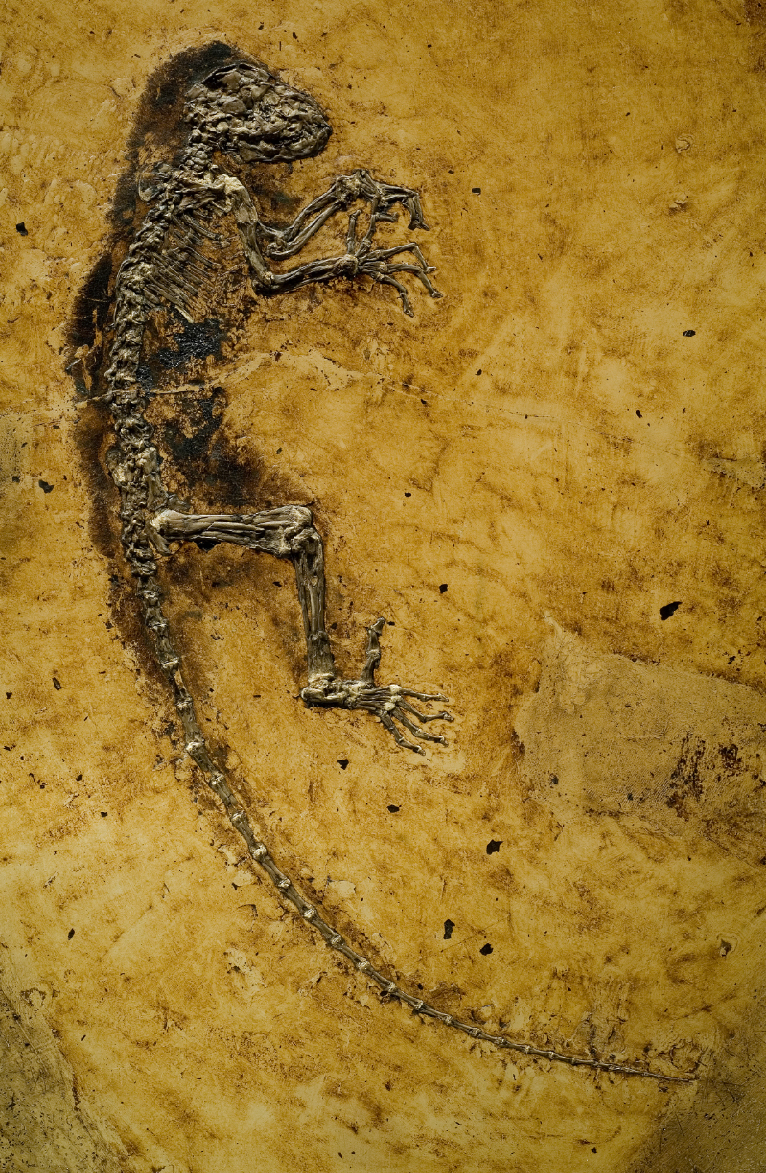 Main slab of Darwinius masillae (specimen PMO 214.214), new genus and species, from Messel in Germany.